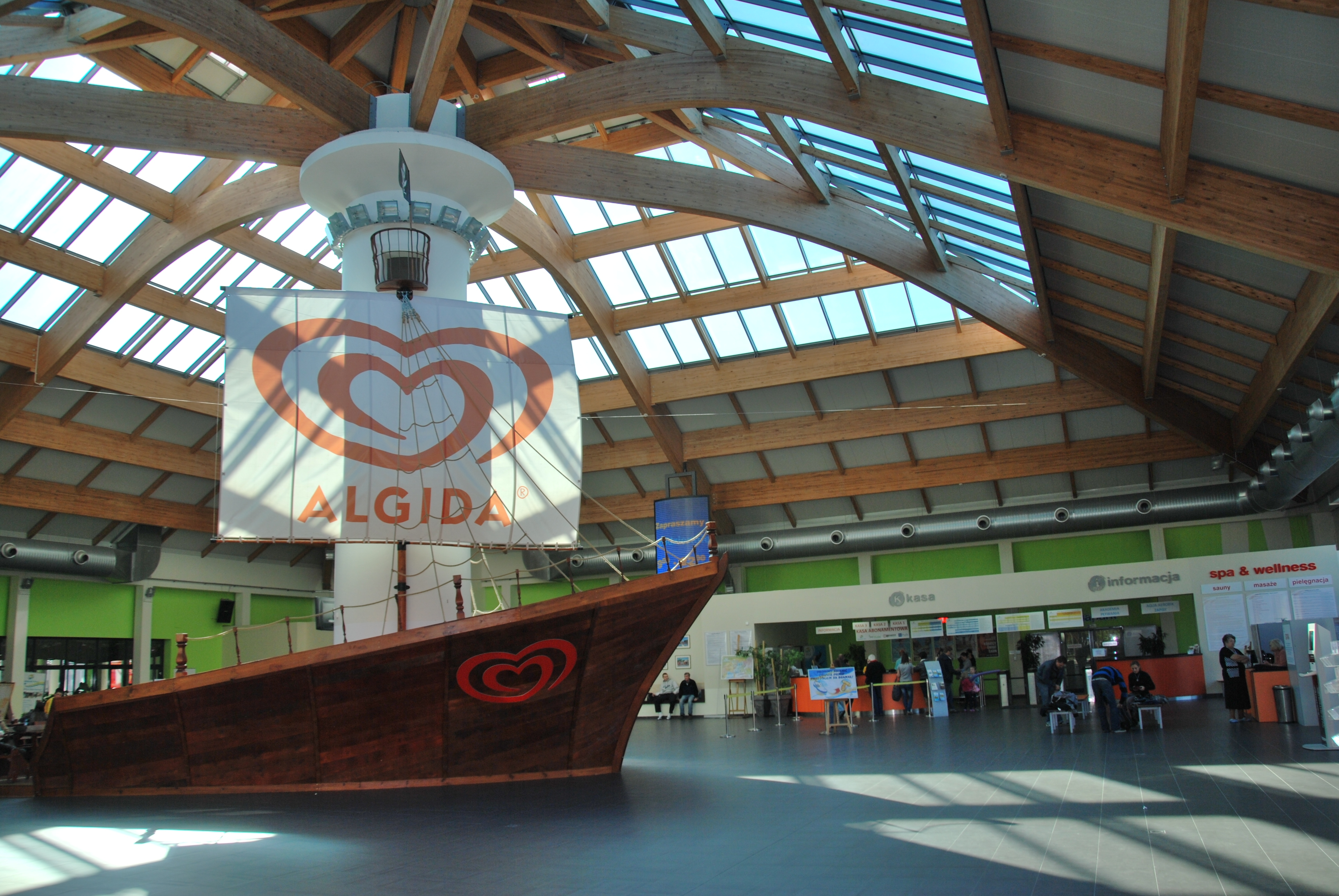 Aquapark 'Fala' in Łódź inside